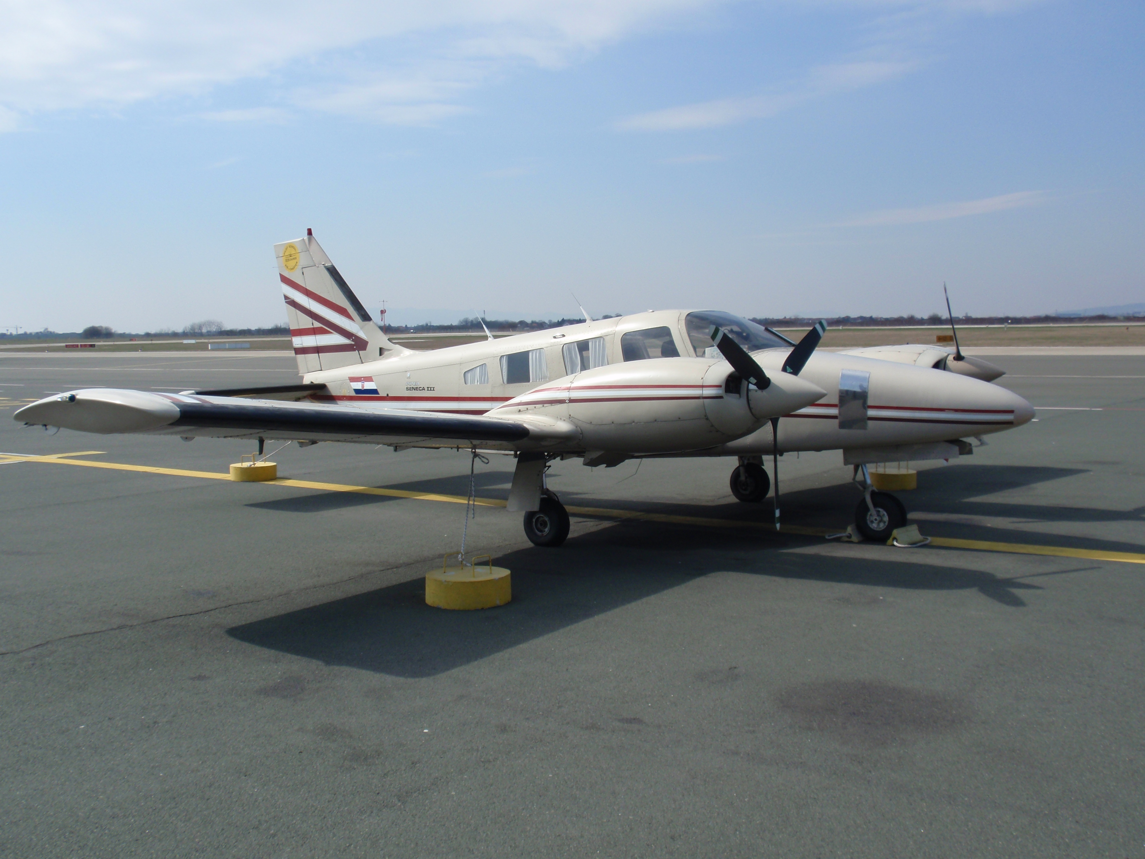 Piper PA-34 Seneca III